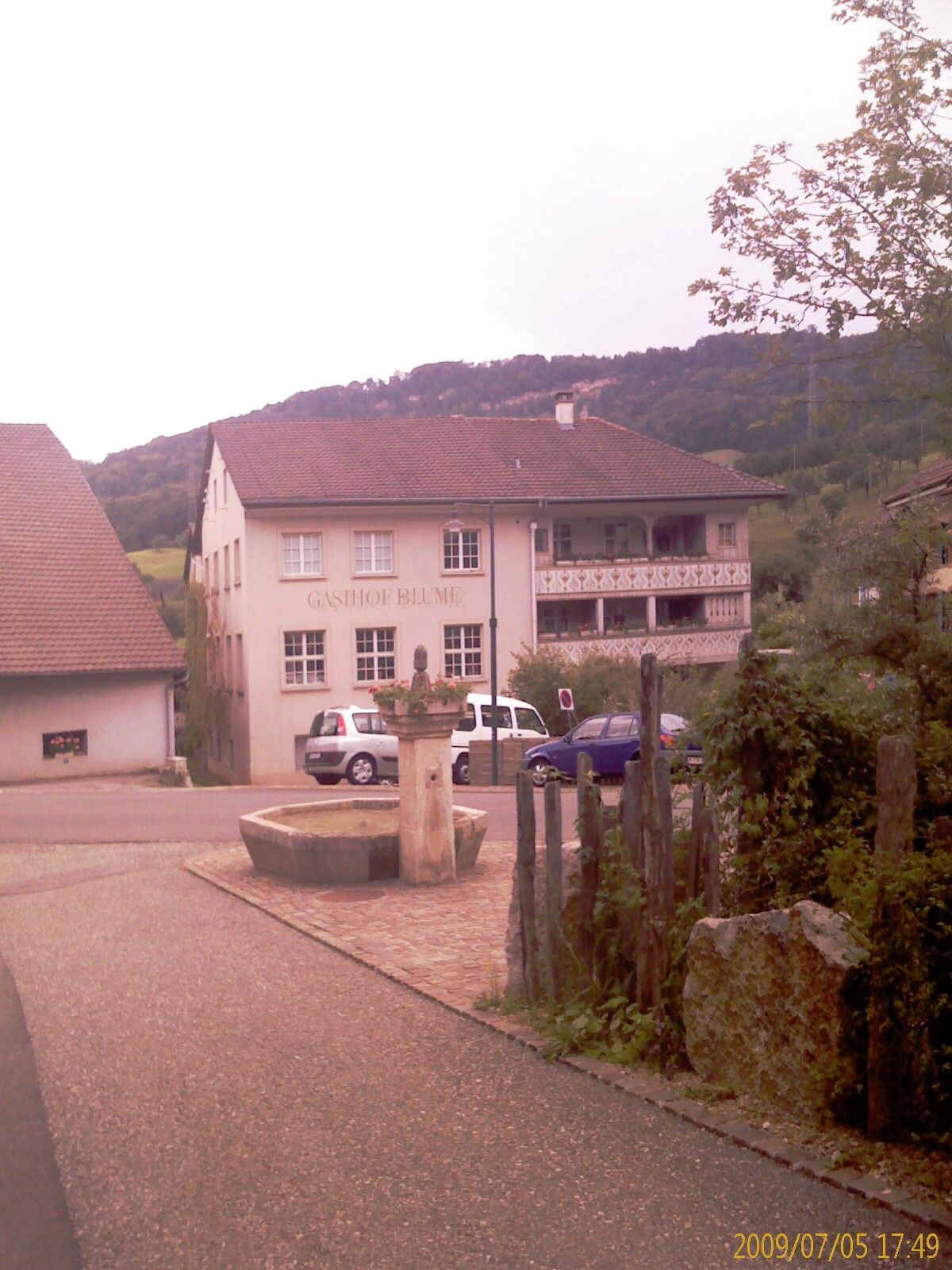 Village fountain at Rickenbach, canton of Basel-Country, SwitzerlandEsperanto: Vilaĝa puto en Rickenbach, Kantono Bazelo Kampara, Svislando